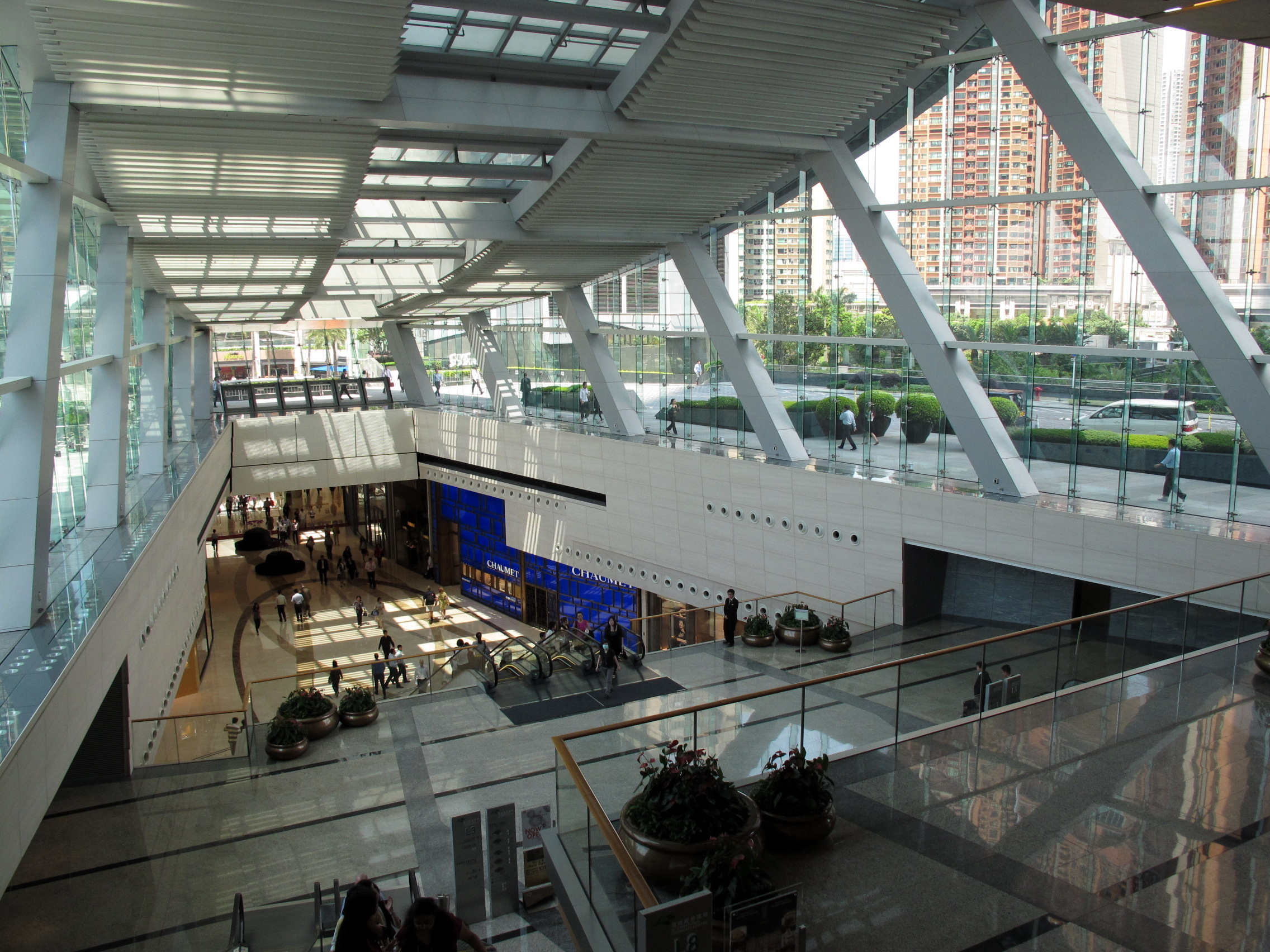 International Commerce Centre Office Lobby Ceiling